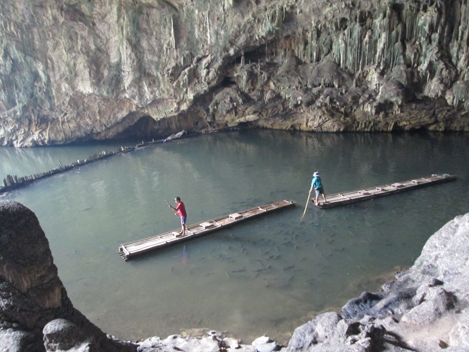 Bamboo rafts in the Tham Lot cave, Thailande.